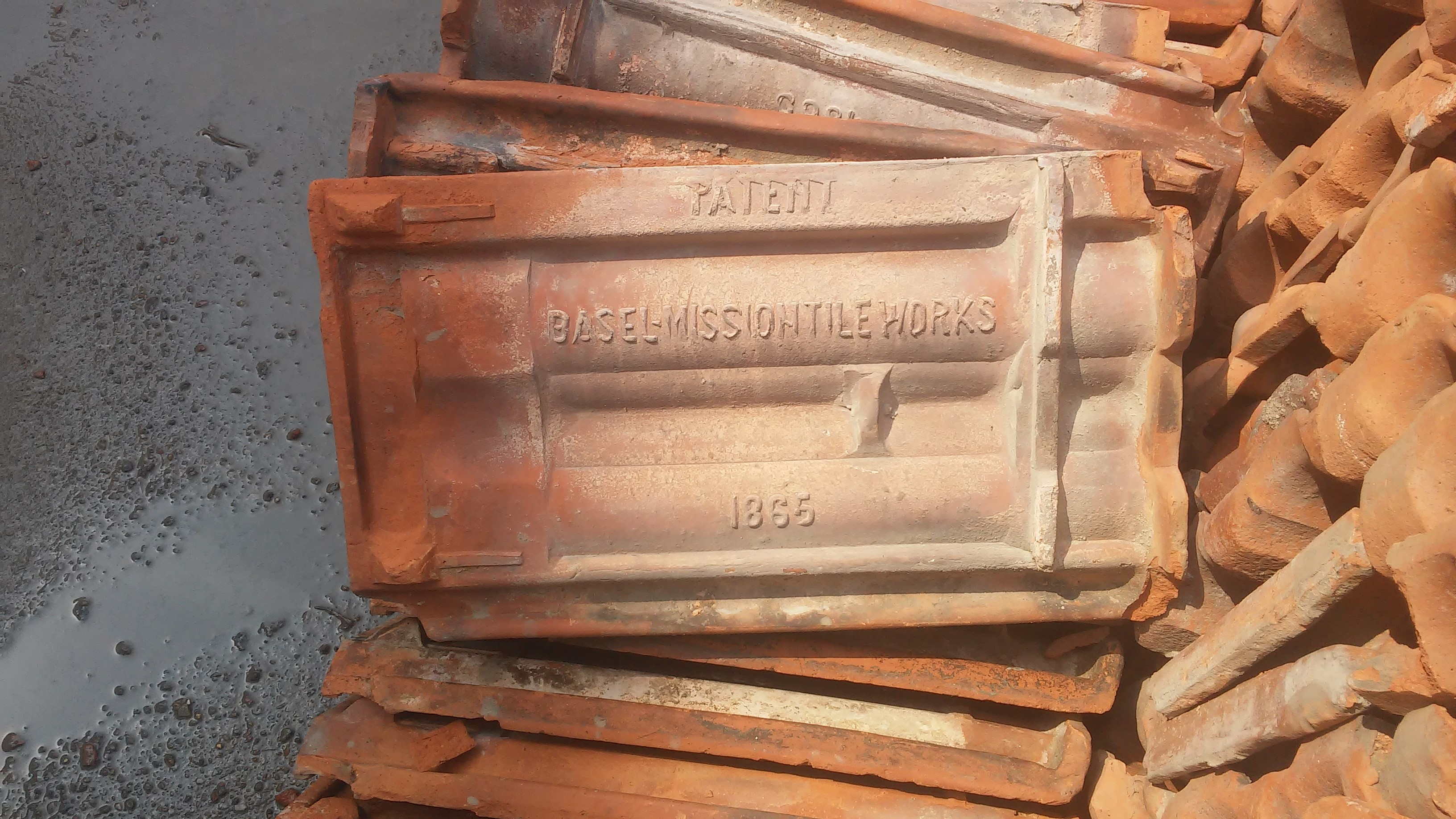 Old Manglore tiles found in an old building in Karachi, Pakistan (Picture dated June 29, 2016).